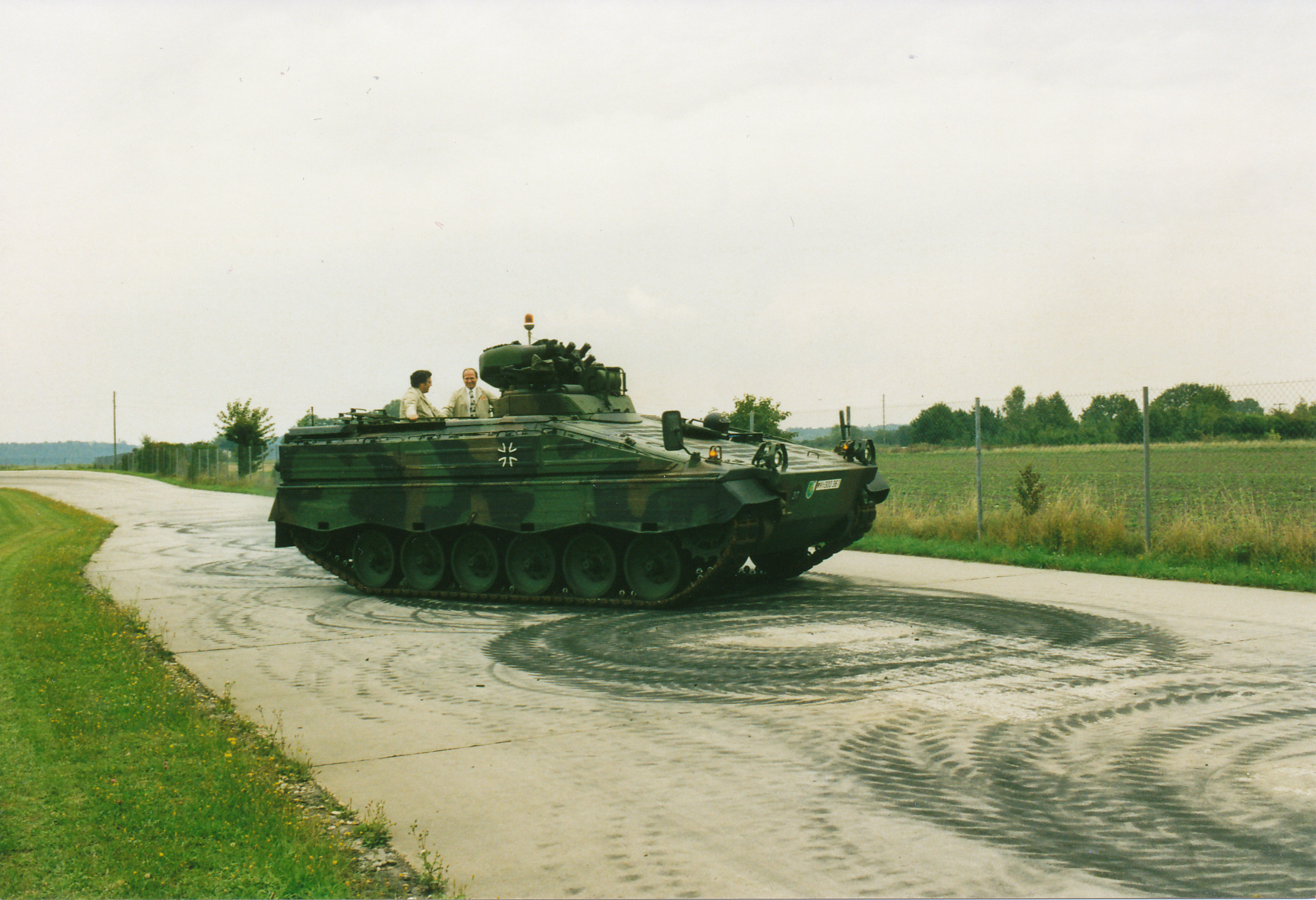 KUKA was producing assembly lines for tanks